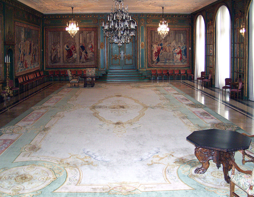 Conferenceroom in Villa Hügel, the old home of the Krupp-family in Essen, Germany